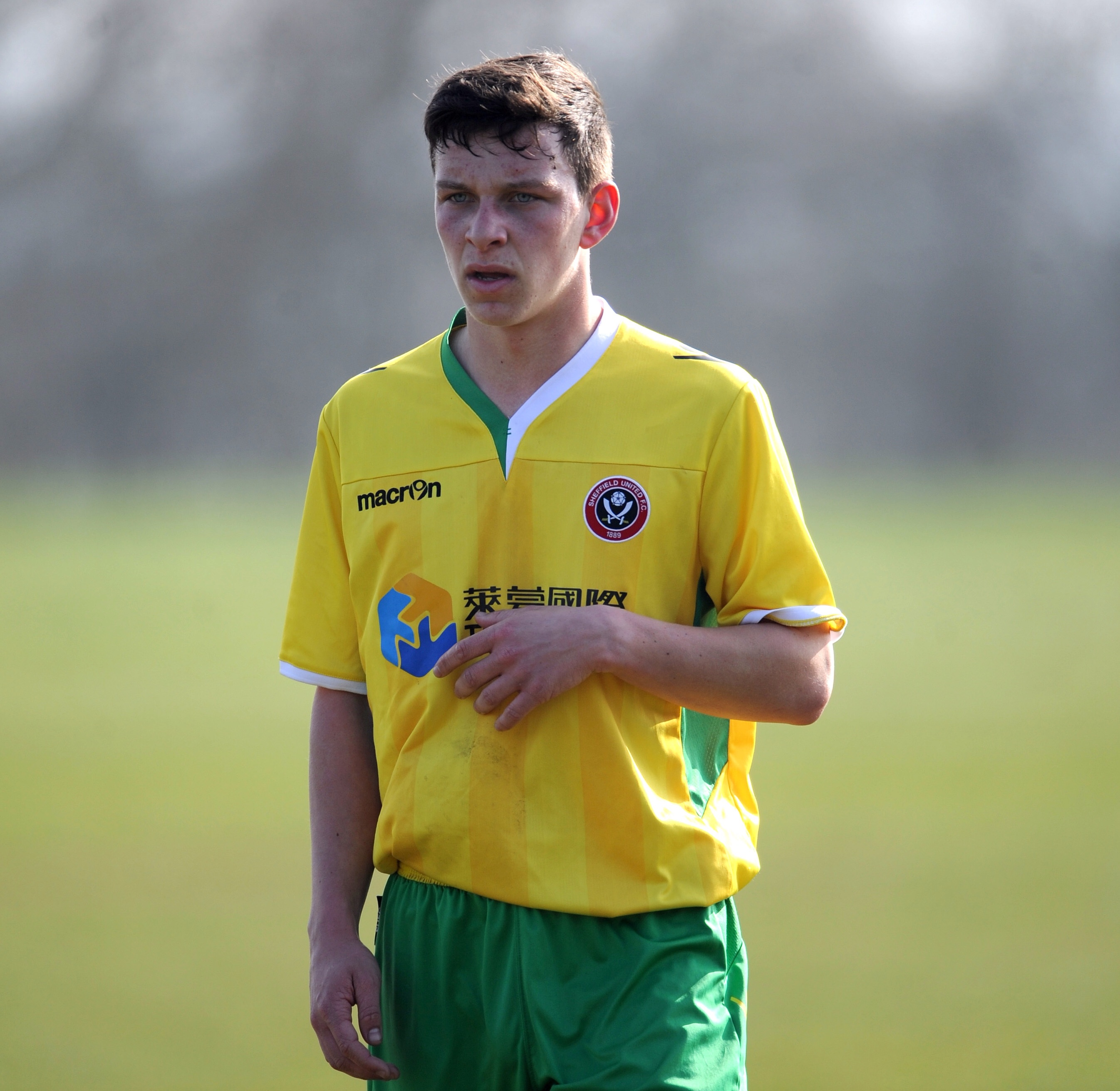 Connor aged 17 playing for sheffield utd u21